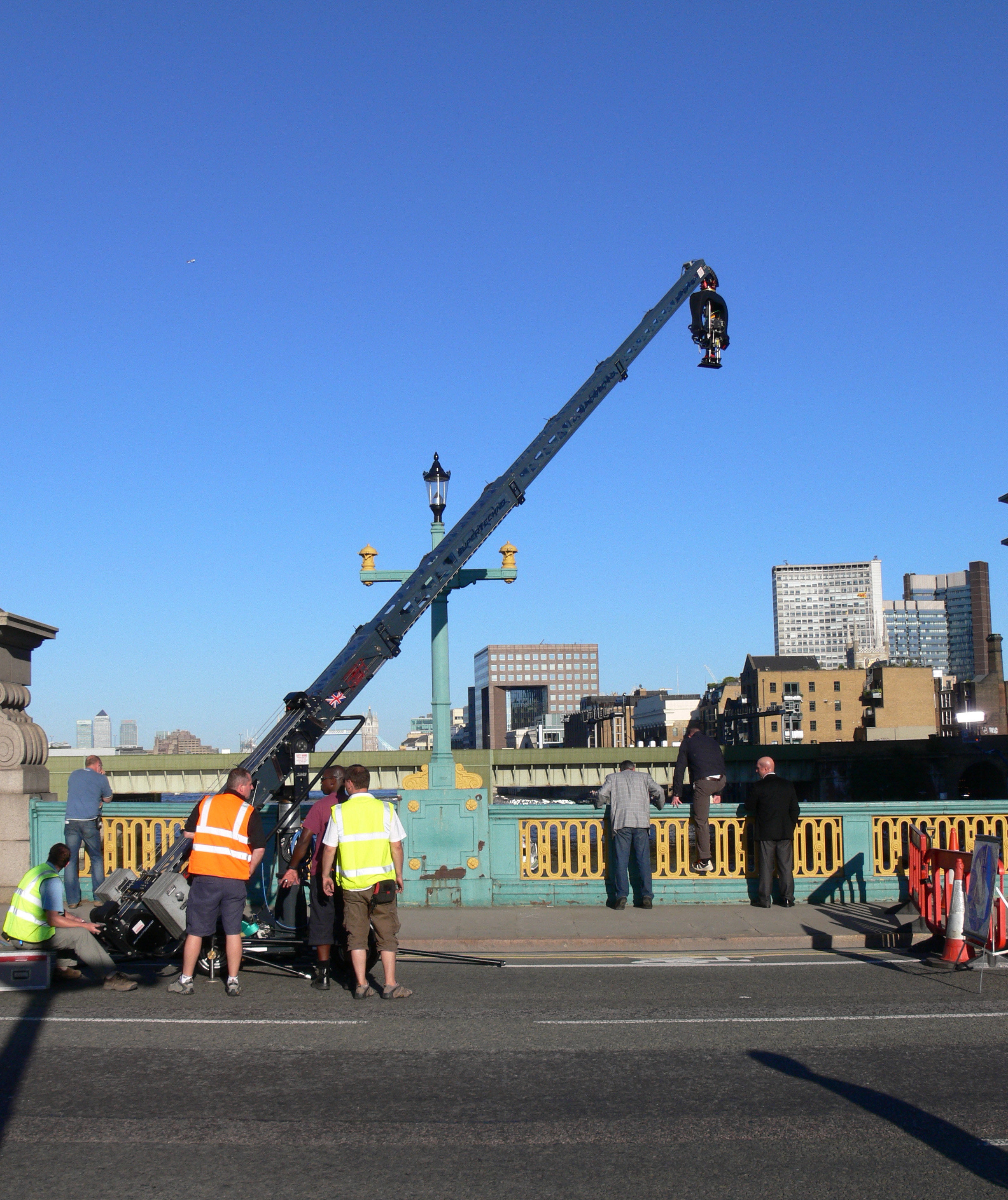 Stuntman about to jump off Southwark Bridge (London) during the shooting of National Treasure: Book of Secrets.